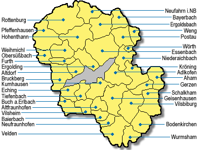 Locator maps of municipalities in District Landshut